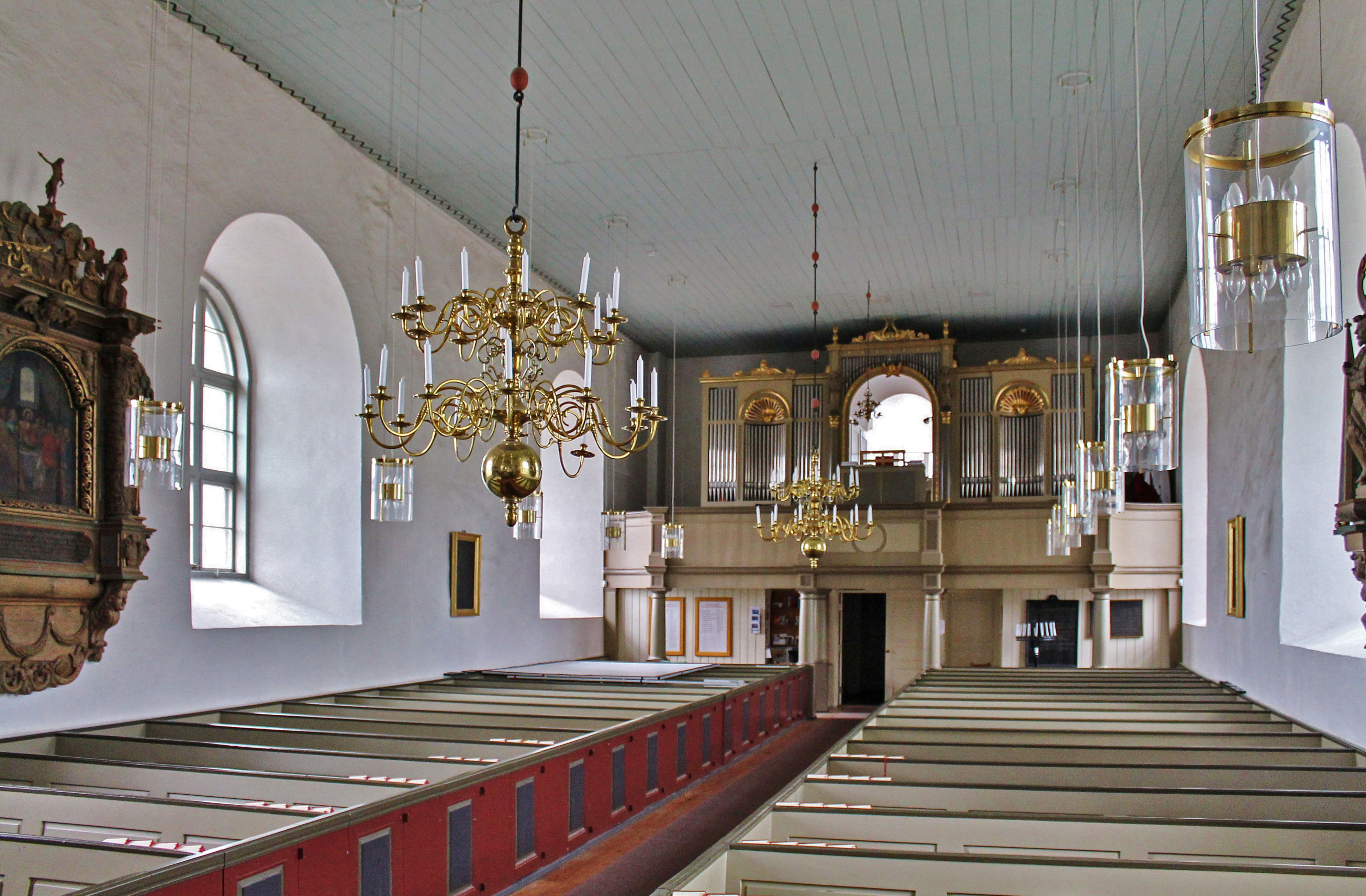 Fridlevstad Church.Interior of the church looking west.